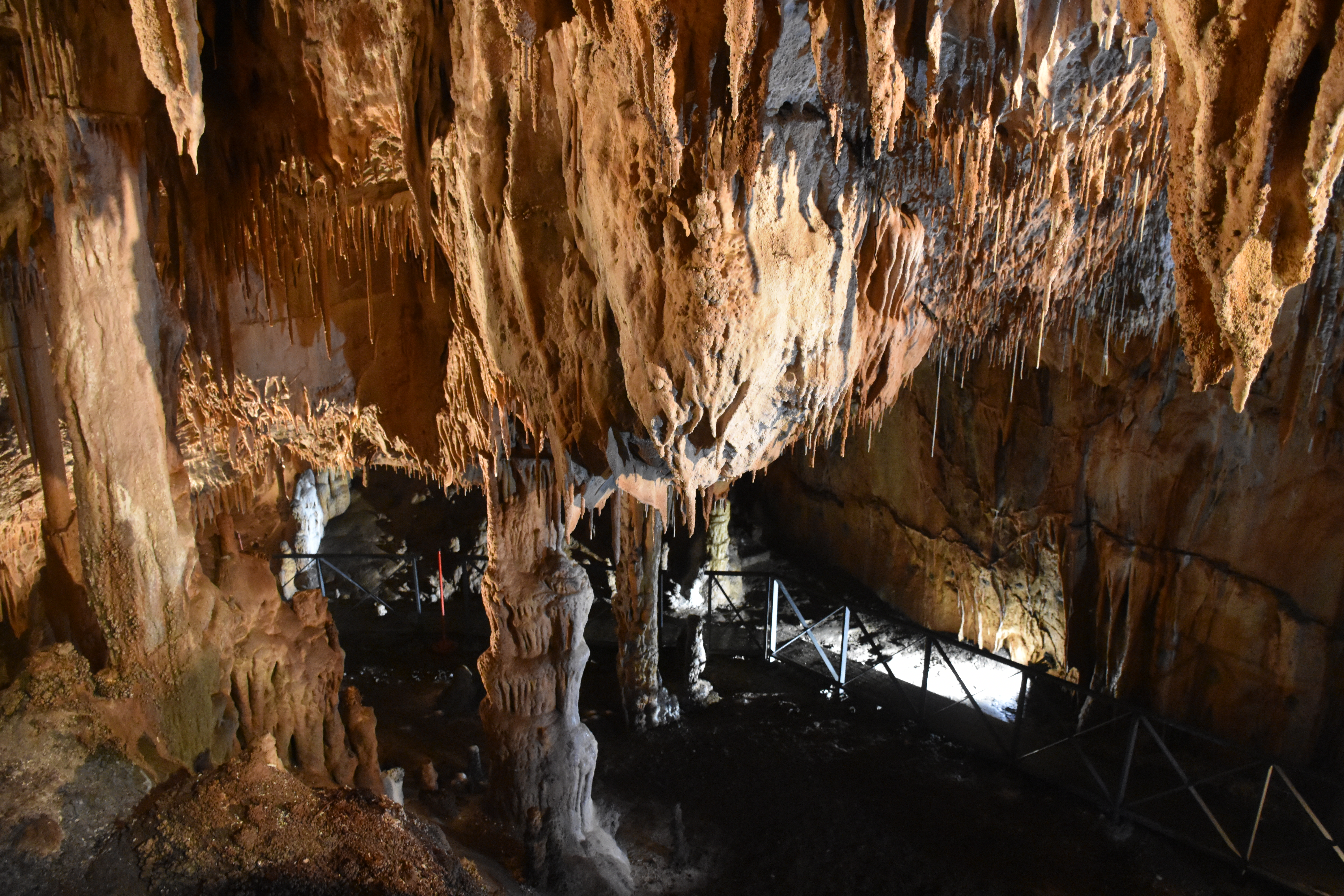 This is a photo of a monument which is part of cultural heritage of Italy.